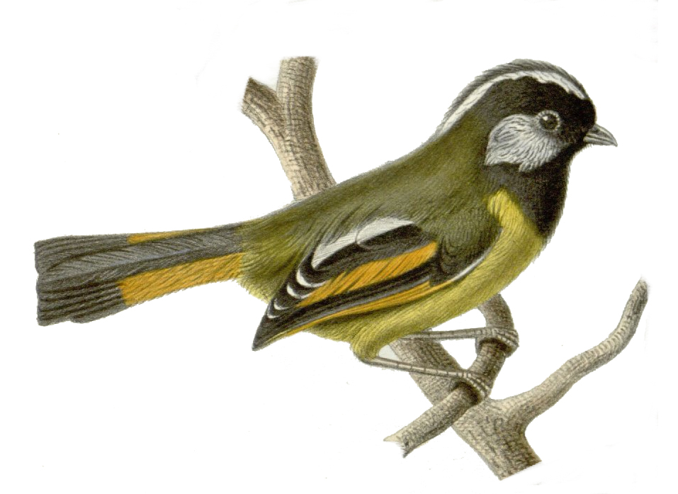 Alcippe chrysotis